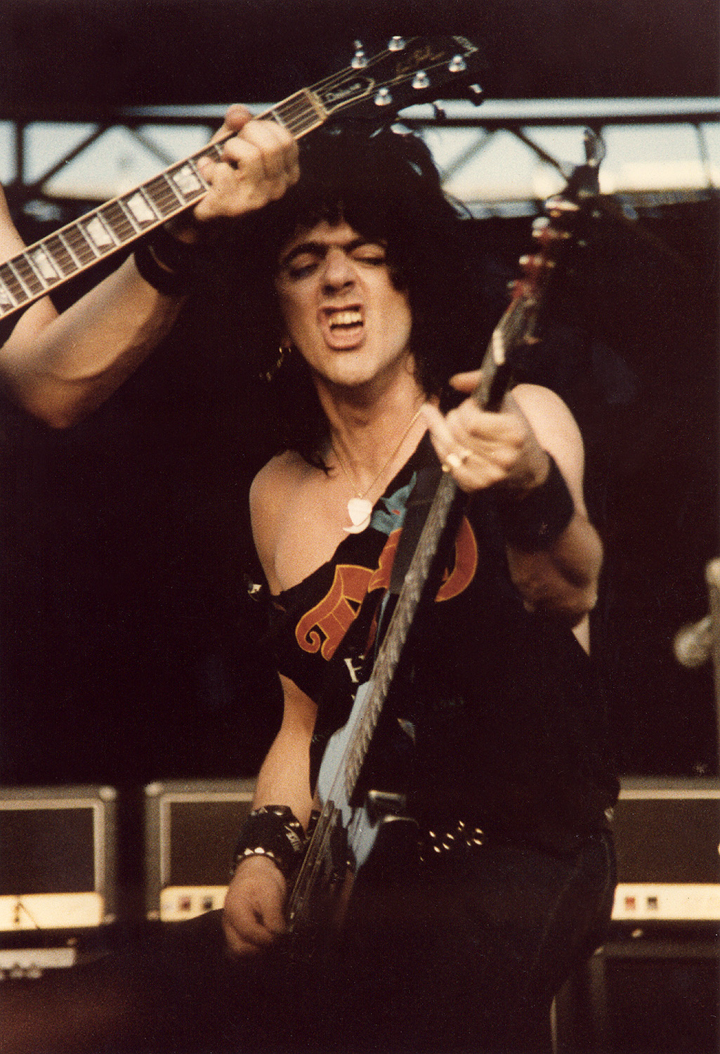 Dio - Jimmy Bain, at Cal Expo, Sacramento, California. August 2, 1983. Canon AE-1, 80-200 Toyo lens. 1000 ASA.